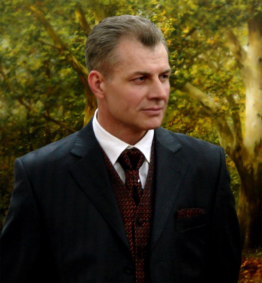 Vladislav Metyolkin at his personal exhibition in Kiev Museum "Spiritual Treasures of Ukraine"